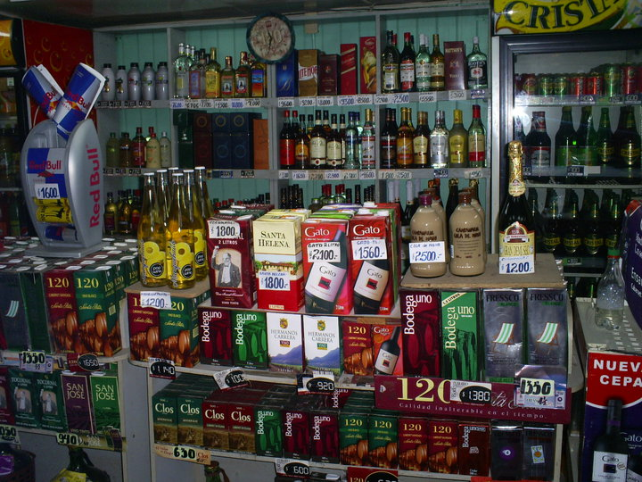 IiiIiiII